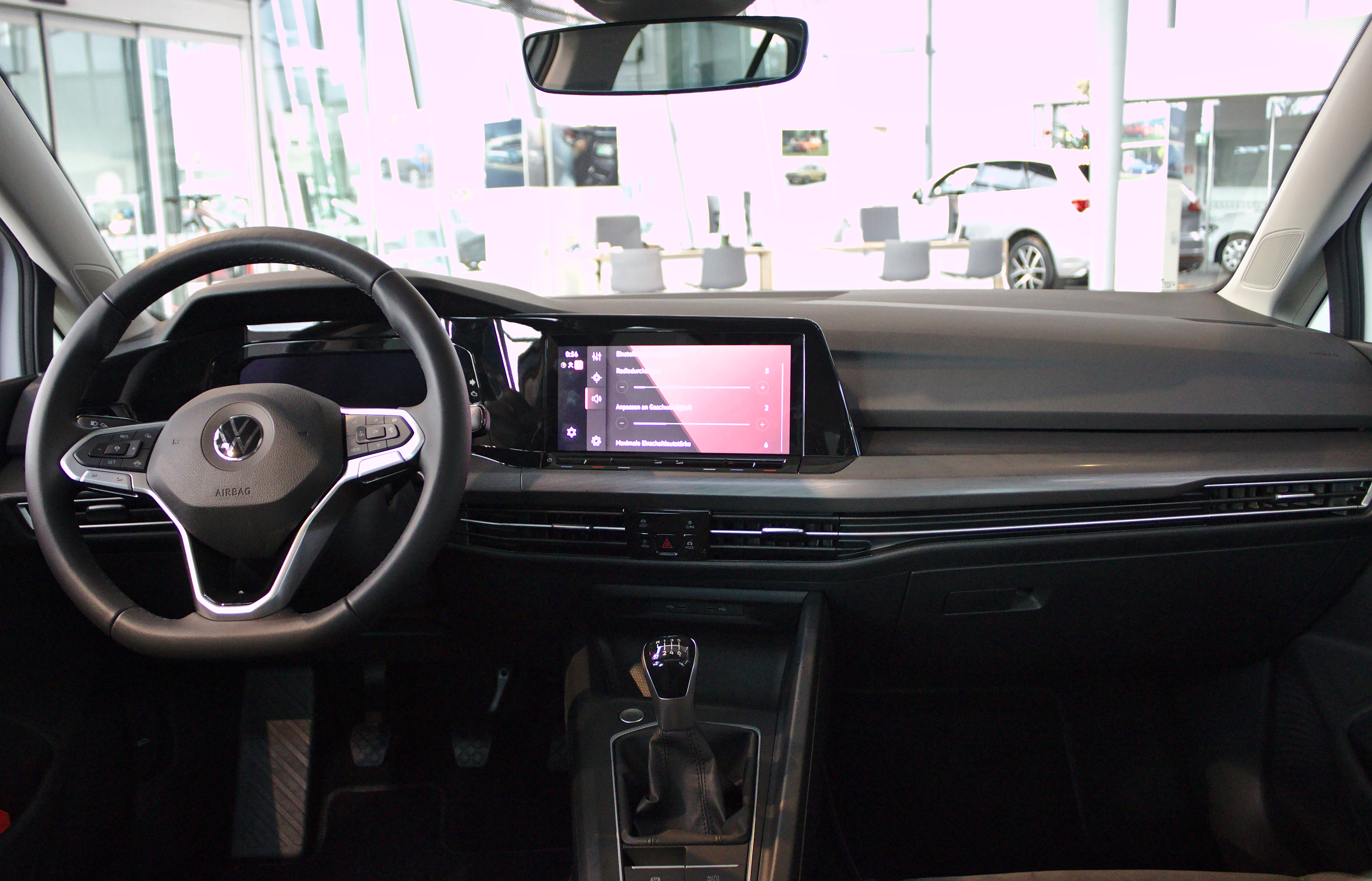 Volkswagen_Golf_VIII in Stuttgart-Vaihingen